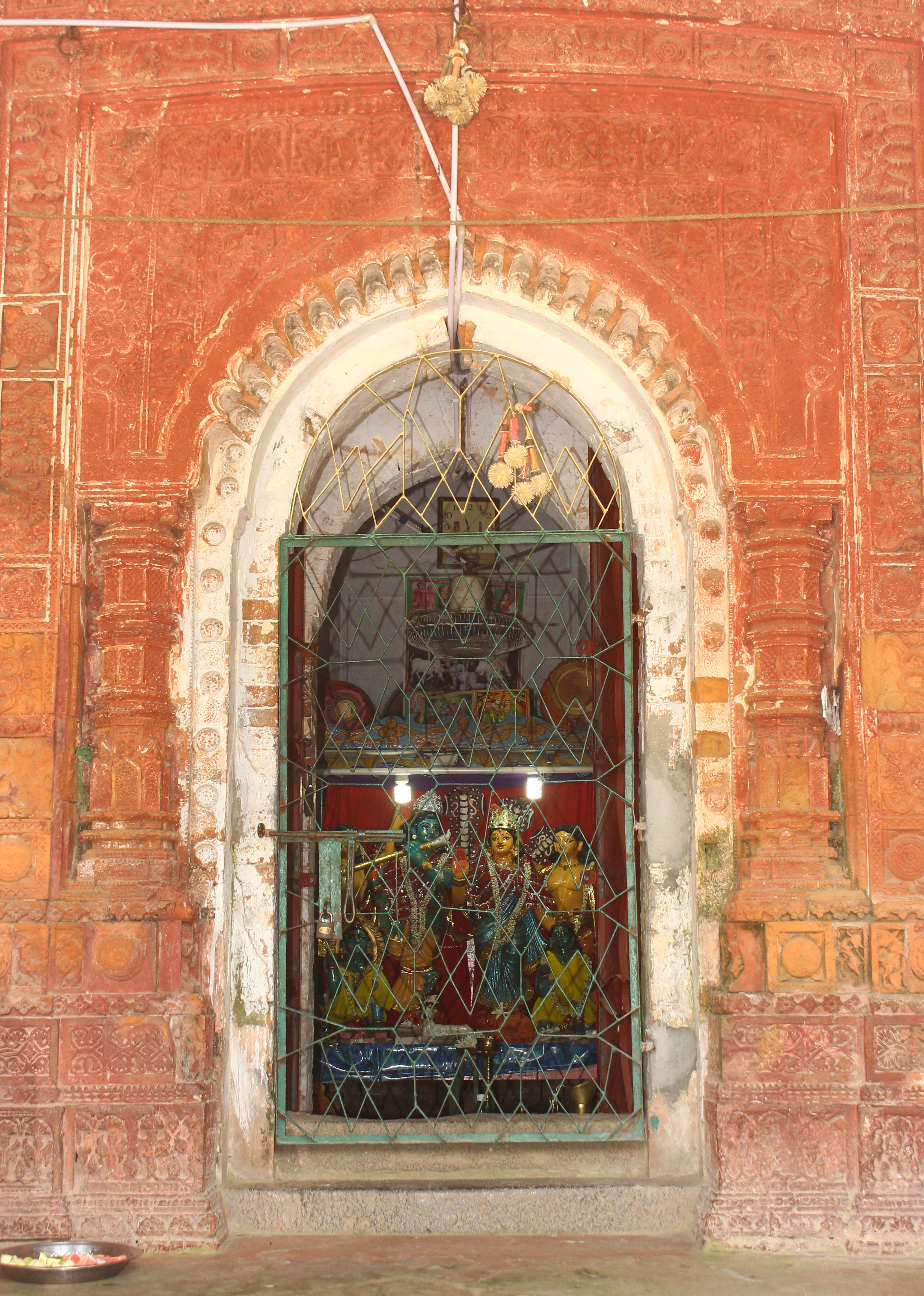 Gobinda Temple is located on Puthia, Rajshahi. It is a 14.47m square building with a height of 18.24m. Built on the Pancharatna type of architecture. The templewas erected in between 1823 and 1895AD, by one the queens(maharani) of the Puthia estate. Terracotta medallions, battle scenery from the Ramayan and Mahabharata and the stories form the Hindu puranas are the main subject of decoration.